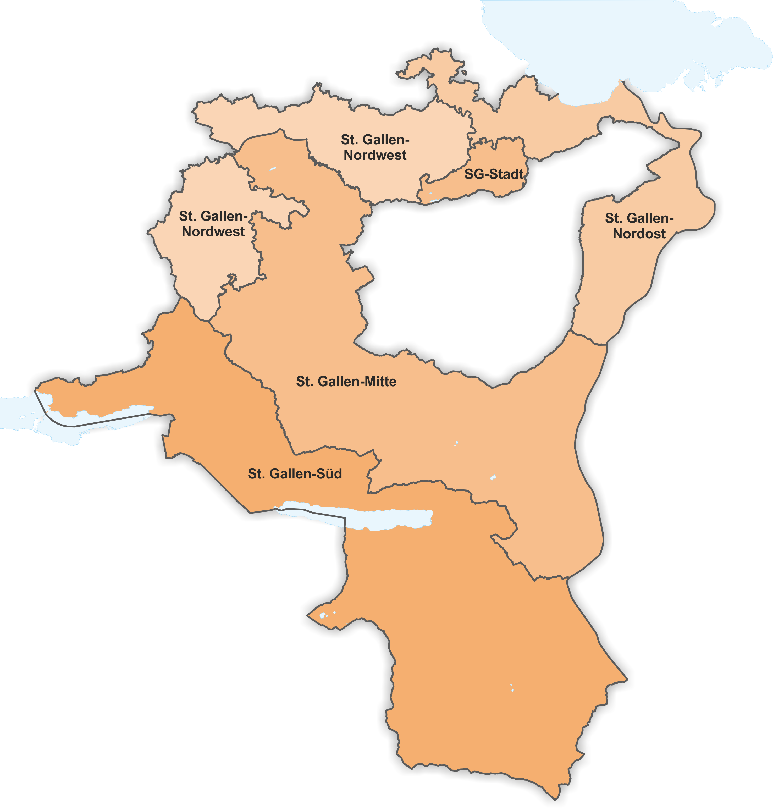 National council constituencies in the canton of St. Gallen from 1911 to 1917